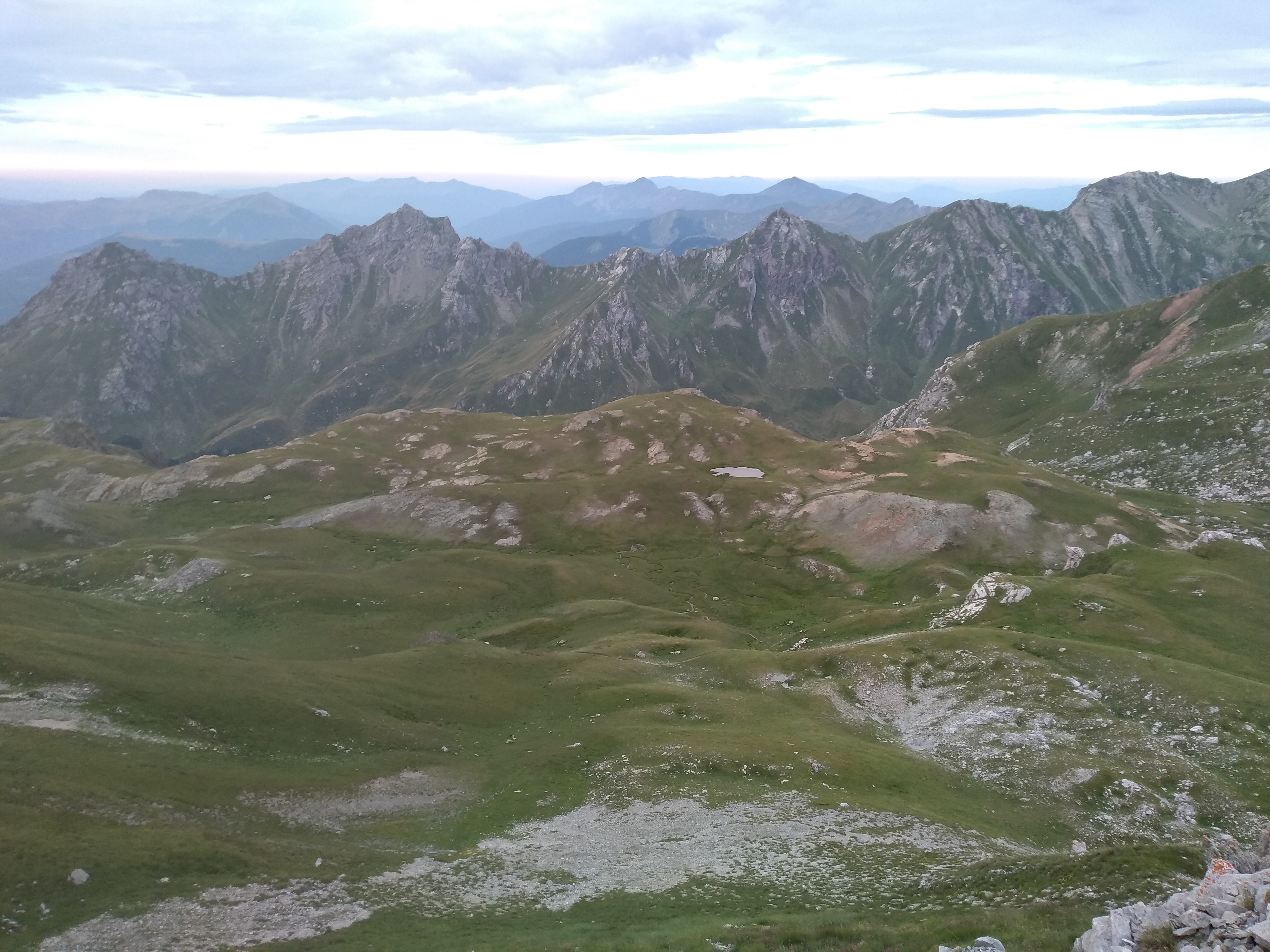 Kobilino Pole plain on Korab mountain, Macedonia